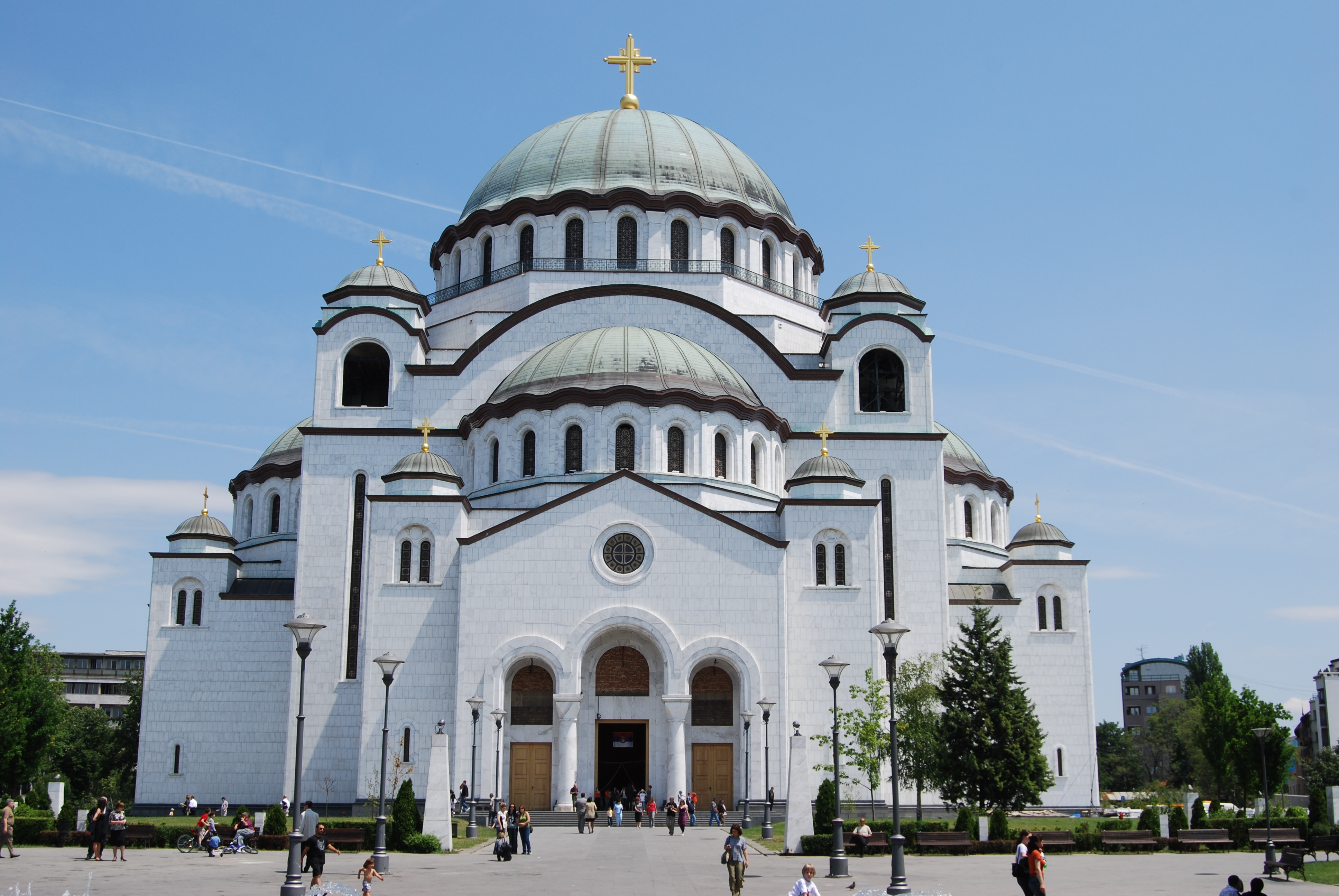 "The Temple of Saint Sava during the day. Its amazing and huge."